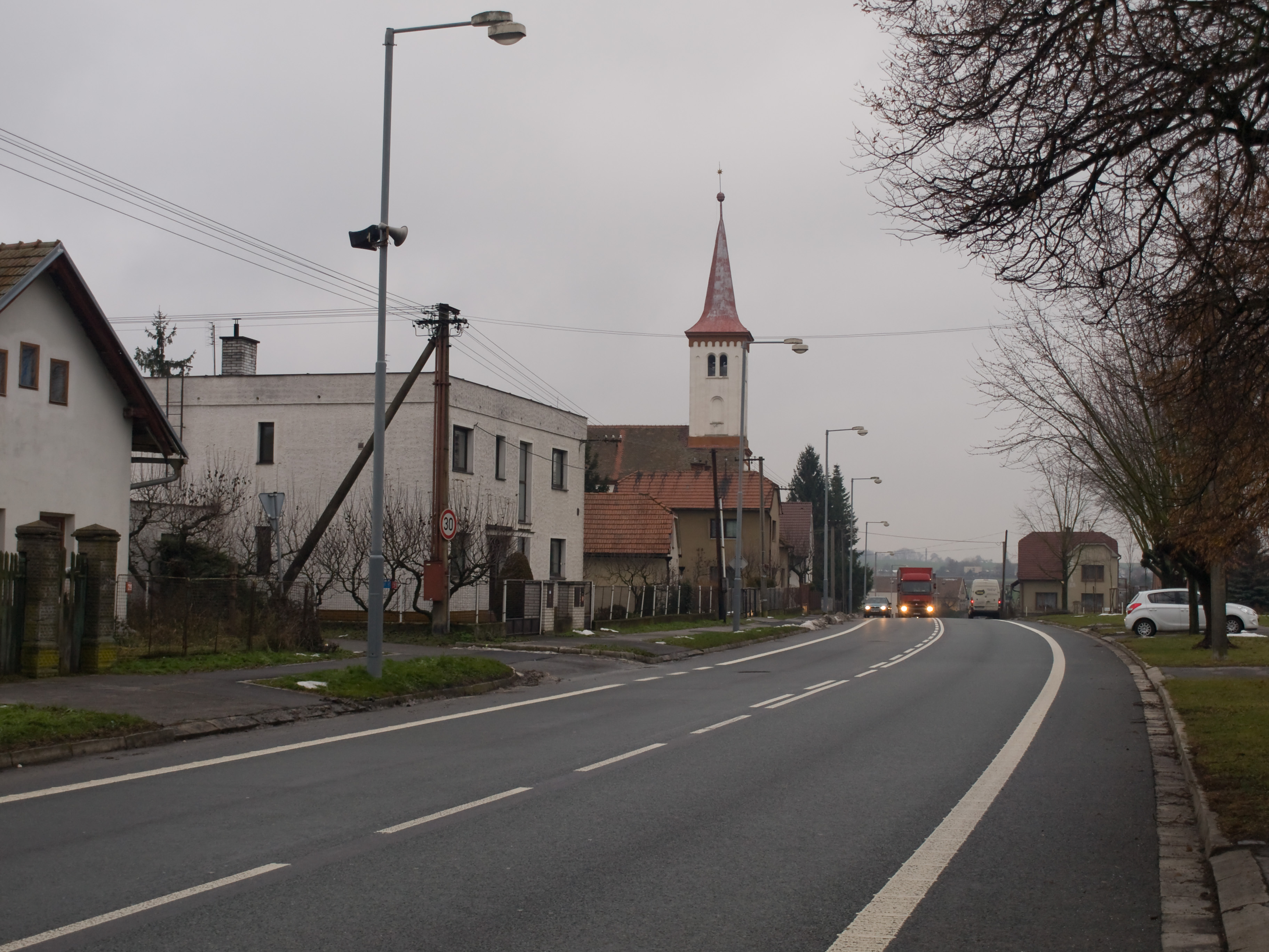 Bukovka, Pardubice District, Pardubice Region